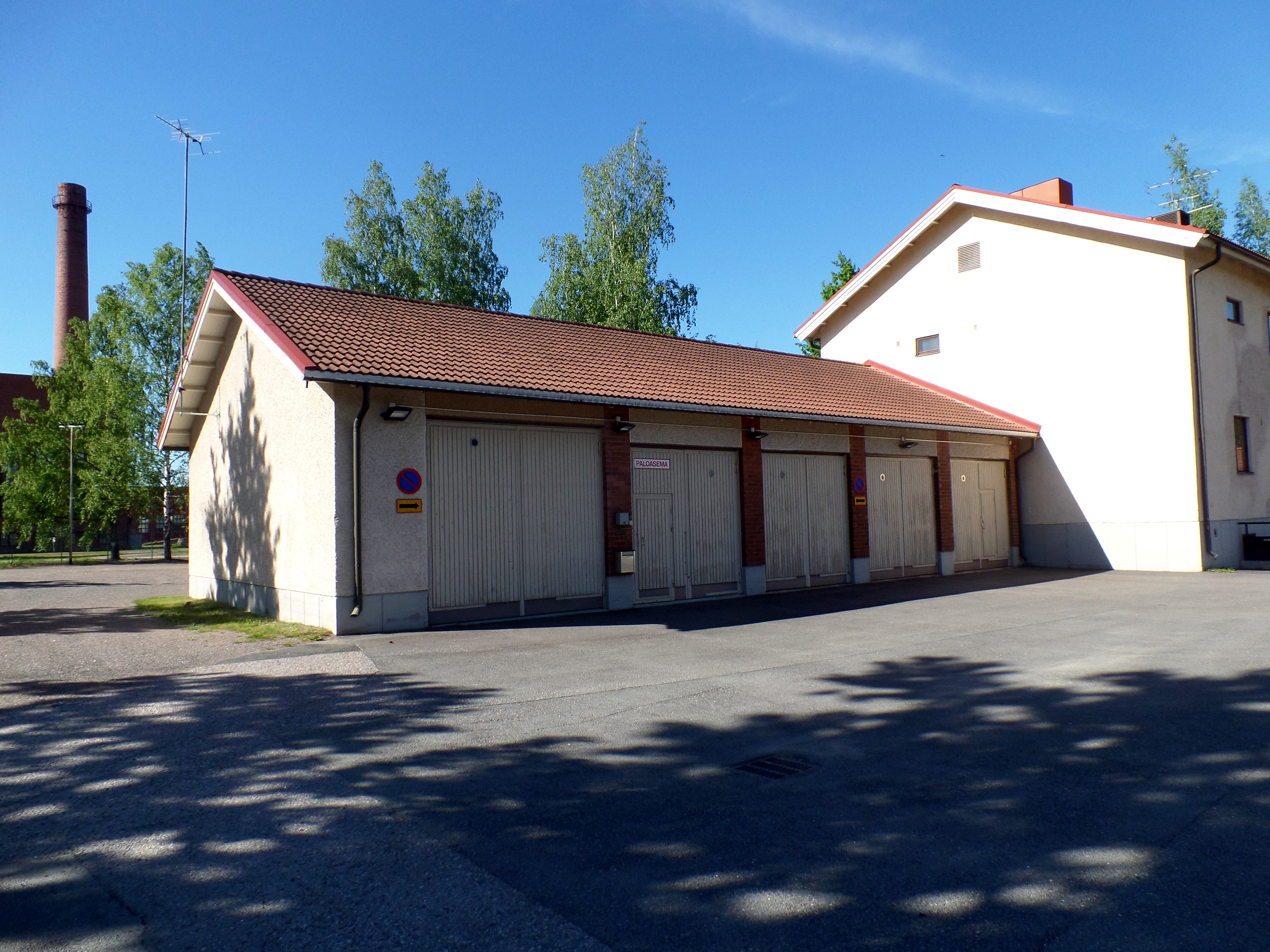 Fire station of Hyvinkään konepaja fire department.